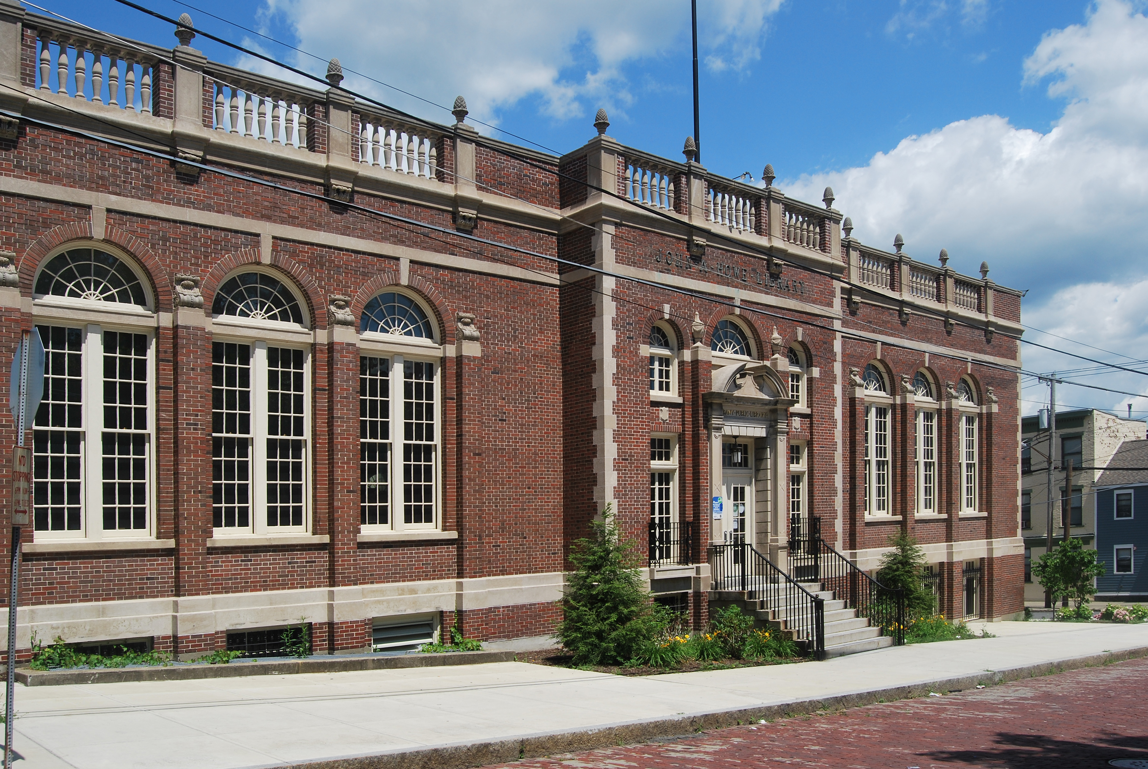 Albany Library in South End-Groesbeckville Historic District in Albany, New York